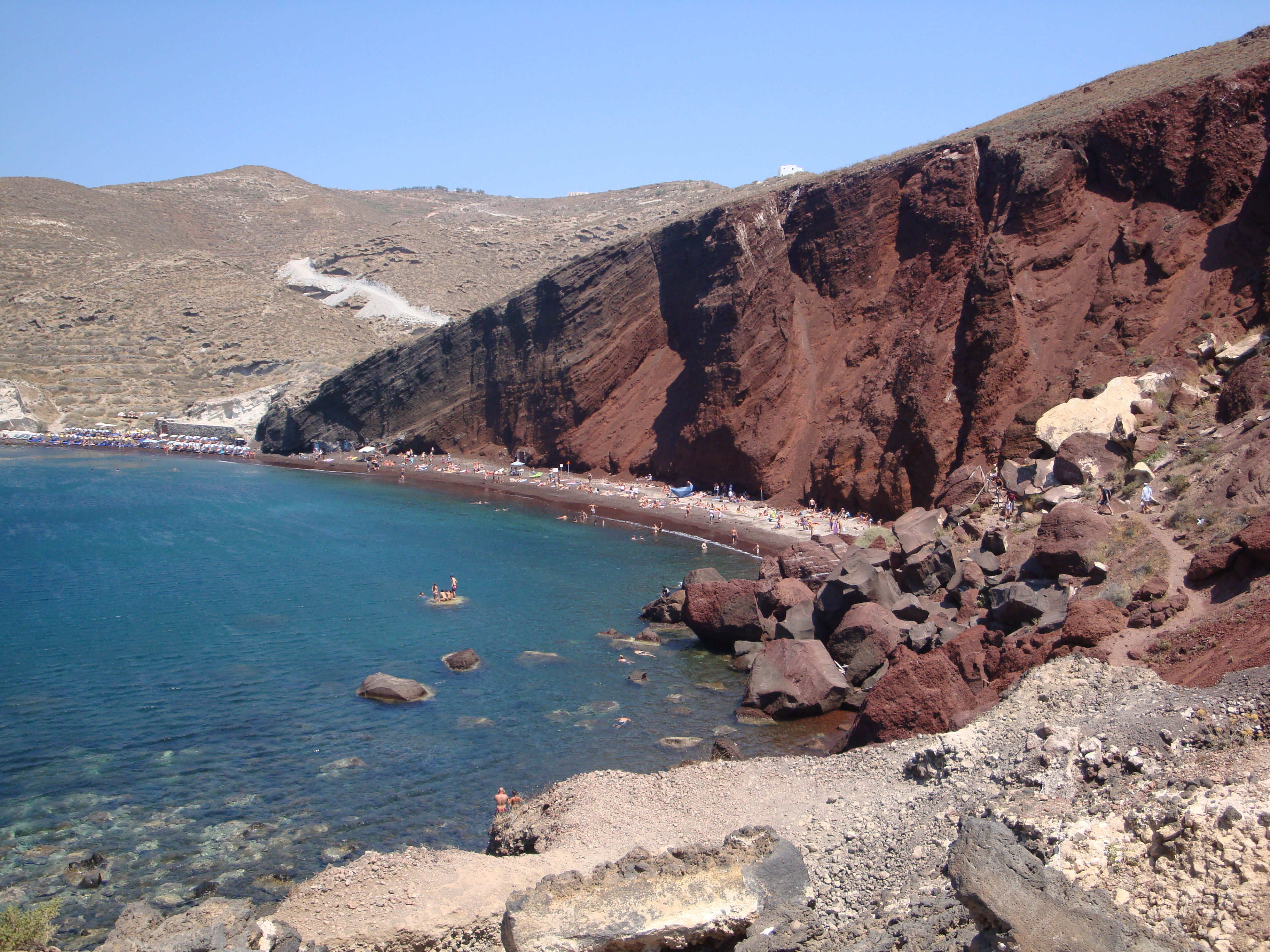 Red beach, Thira